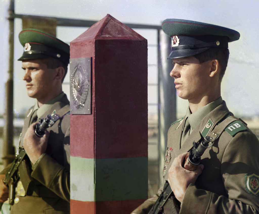 “Karpov frontier post”. Soviet-Afghan border. Karpov frontier post. Red Banner Central Asian Military District.